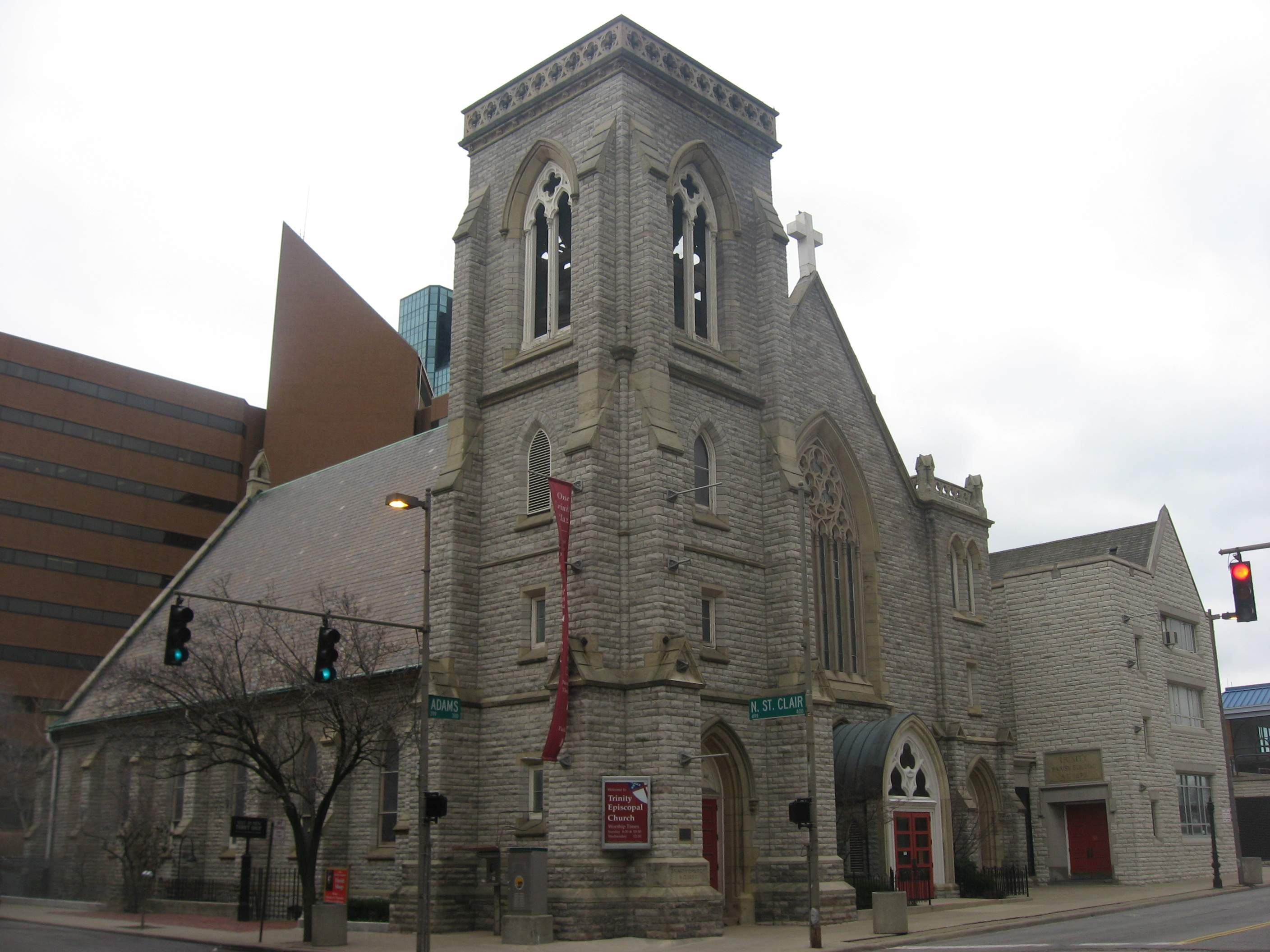 Front and western side of Trinity Episcopal Church, located at 316 Adams Street in Toledo, Ohio, United States. Built in 1863, it is listed on the National Register of Historic Places.